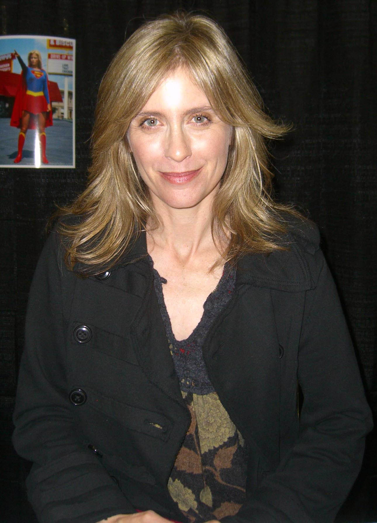 Actor Helen Slater at the Big Apple Convention in Manhattan. Photographed by Luigi Novi. This photo may only be used if the photographer is properly credited. (See Licensing information below.)